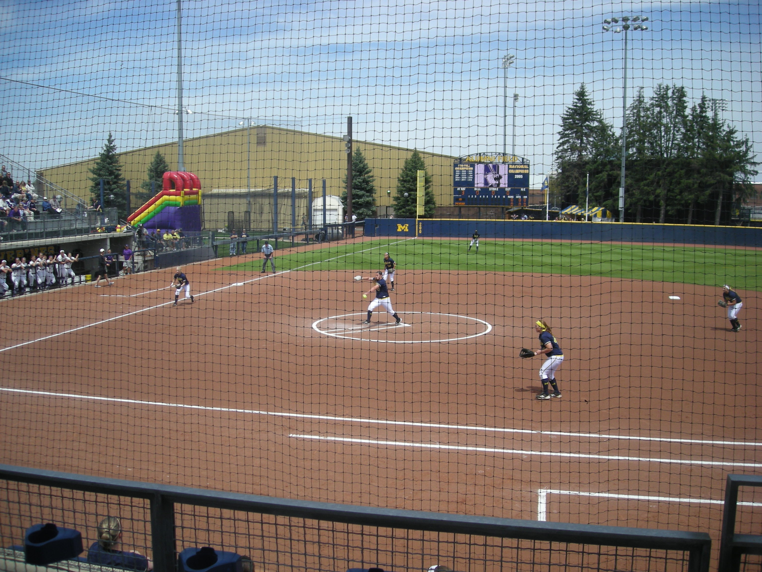 In-game action during the Northwestern Wildcats vs. Michigan Wolverines softball game at Alumni Field in Ann Arbor, Michigan (United States). Michigan won 16–1.